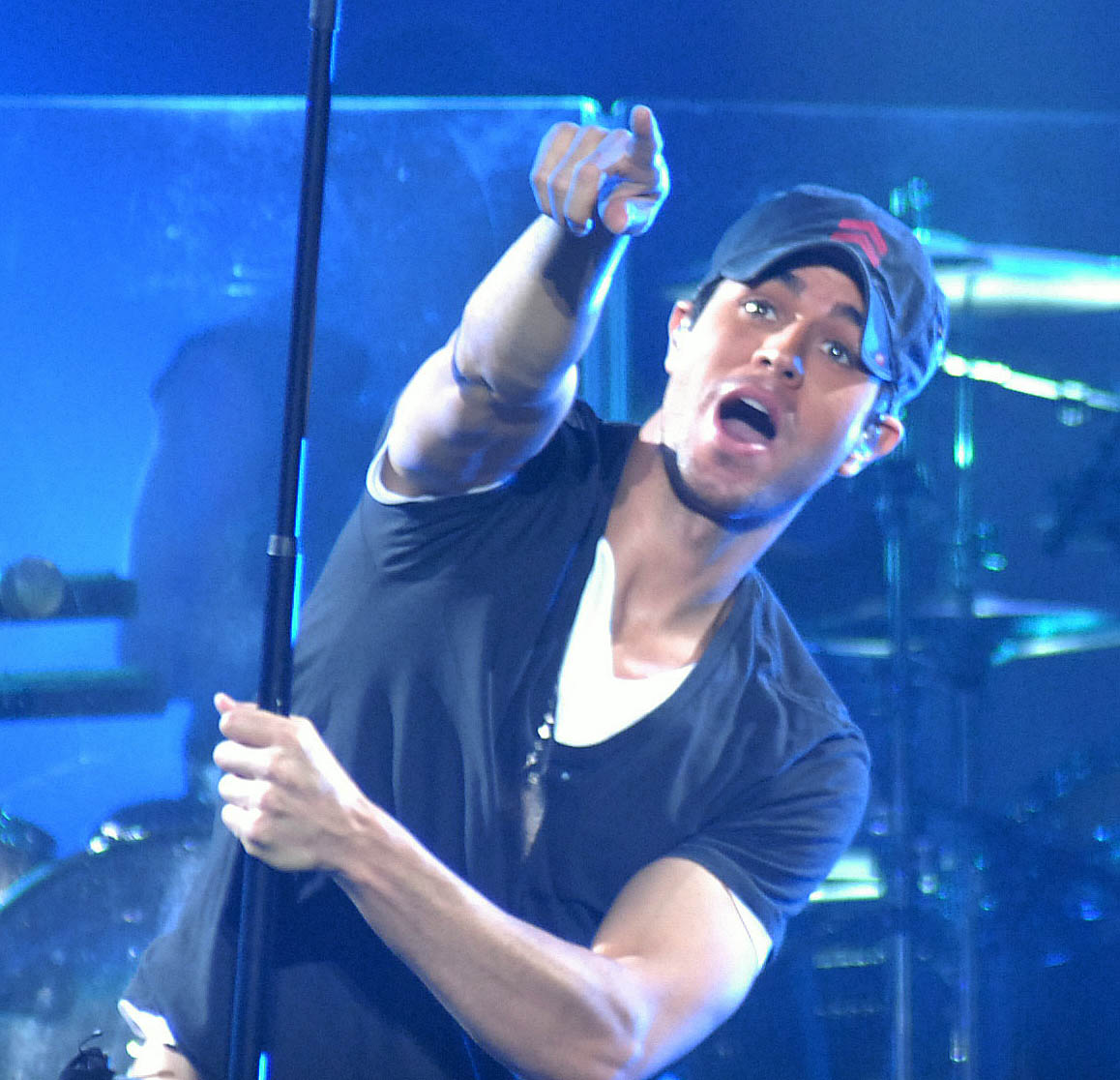 Enrique Iglesias, Vilnius, Lithuania 2007.11.29